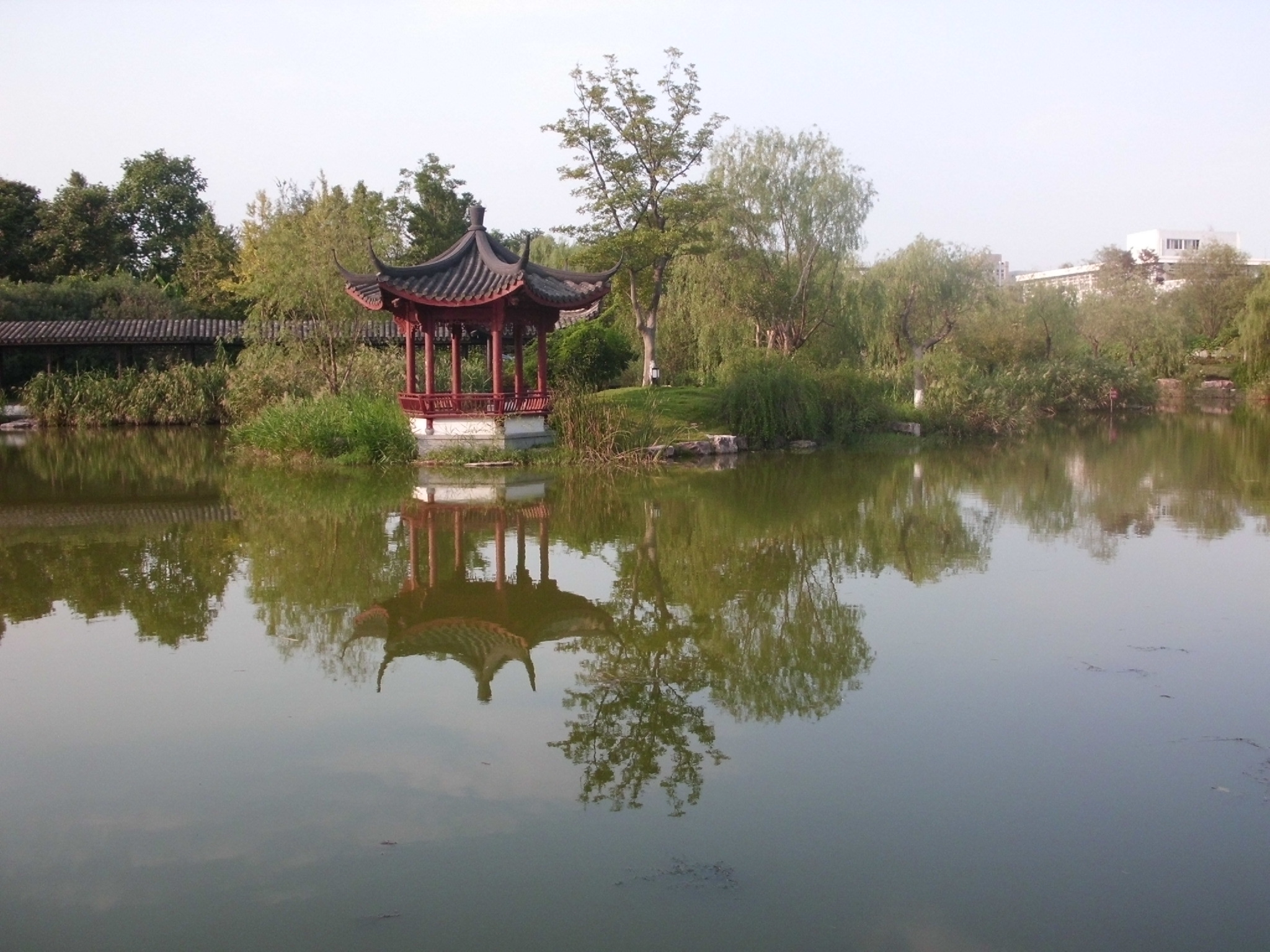 park in Xiasha District